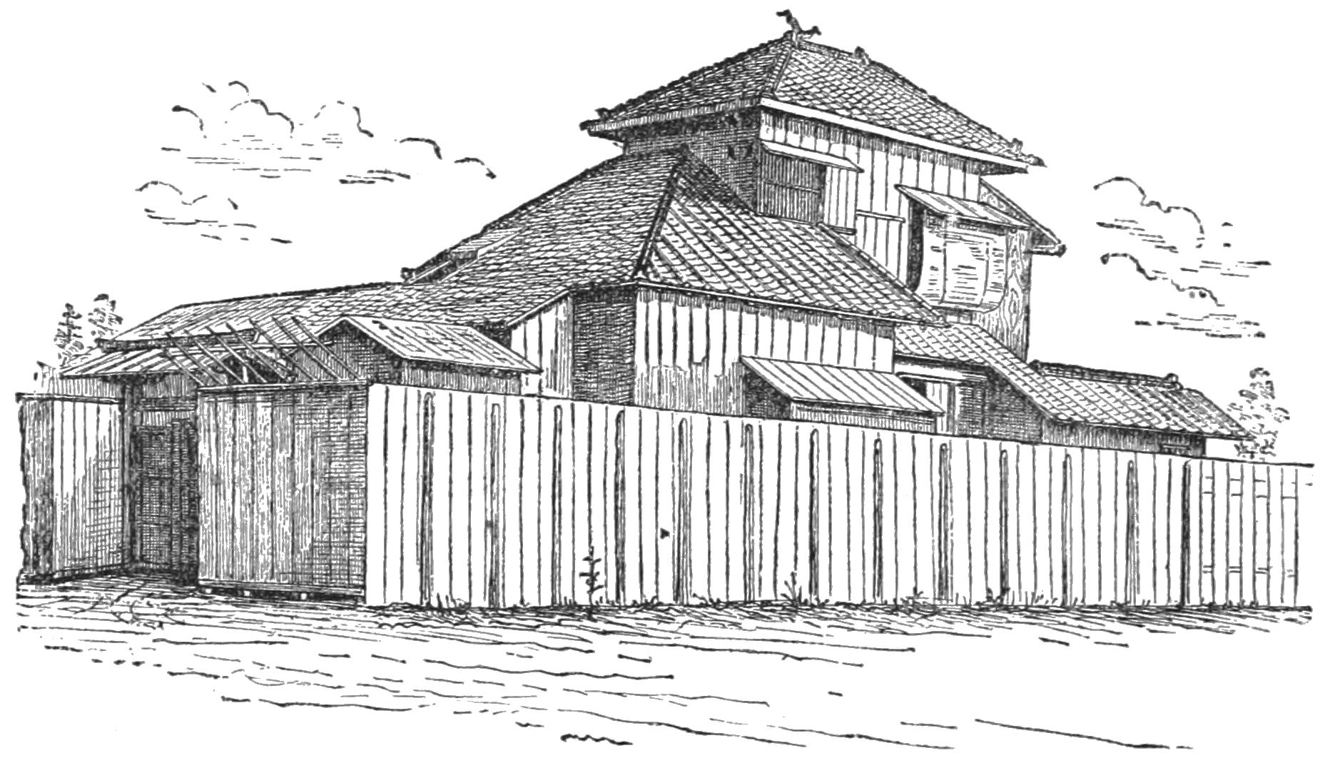 Street view of a dwelling in Tokyo - 19th century